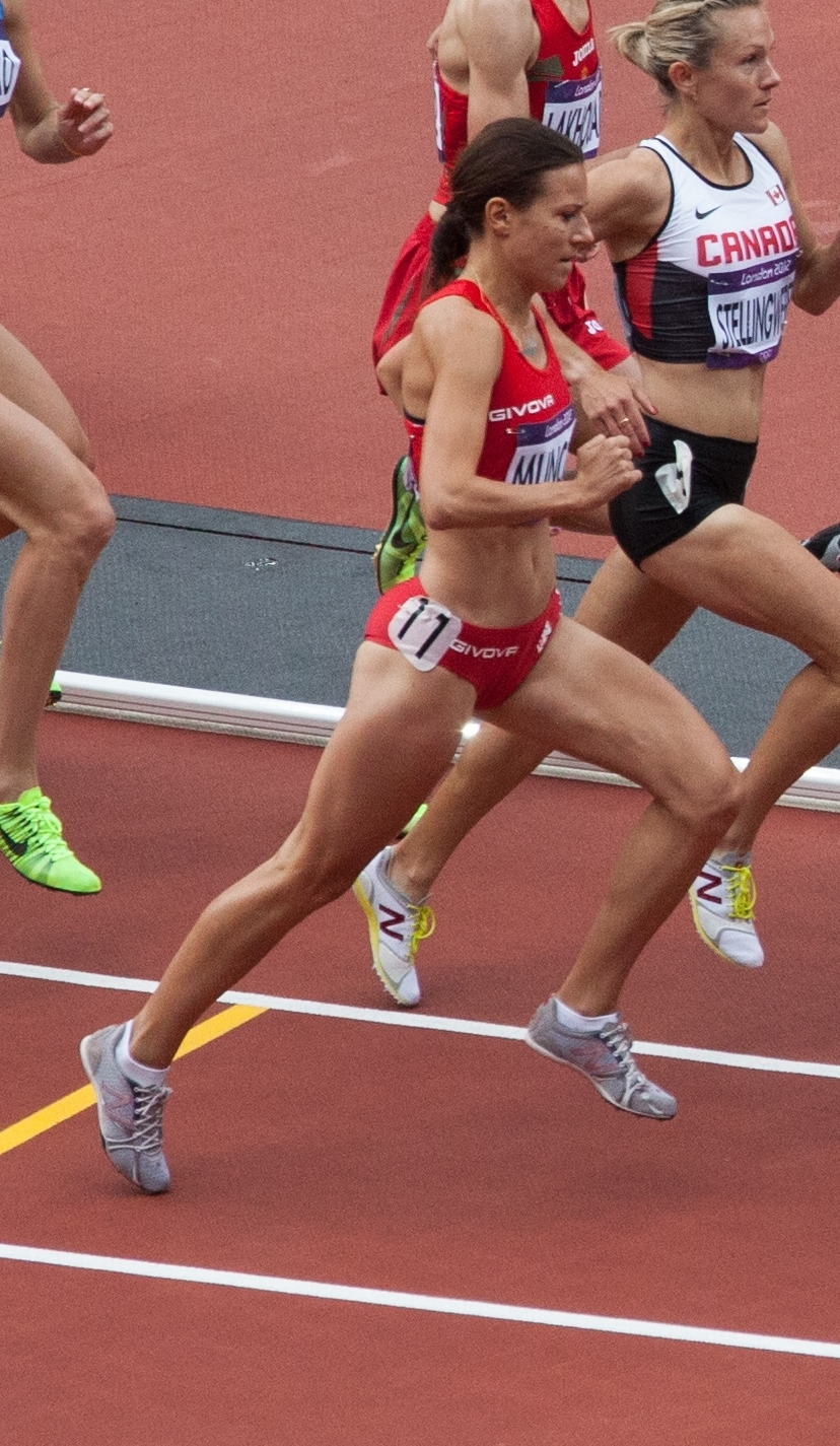 Marina Muncan London 2012